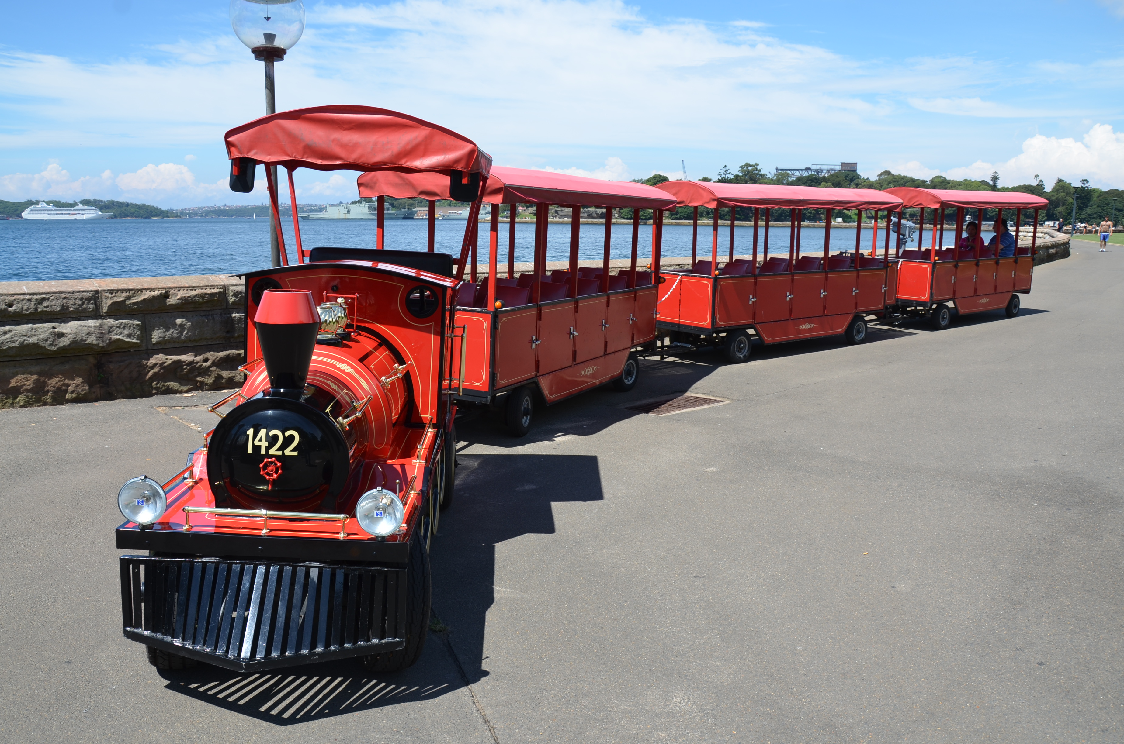 Darling Harbour Mini Train 2012 by Ashish Lohorung